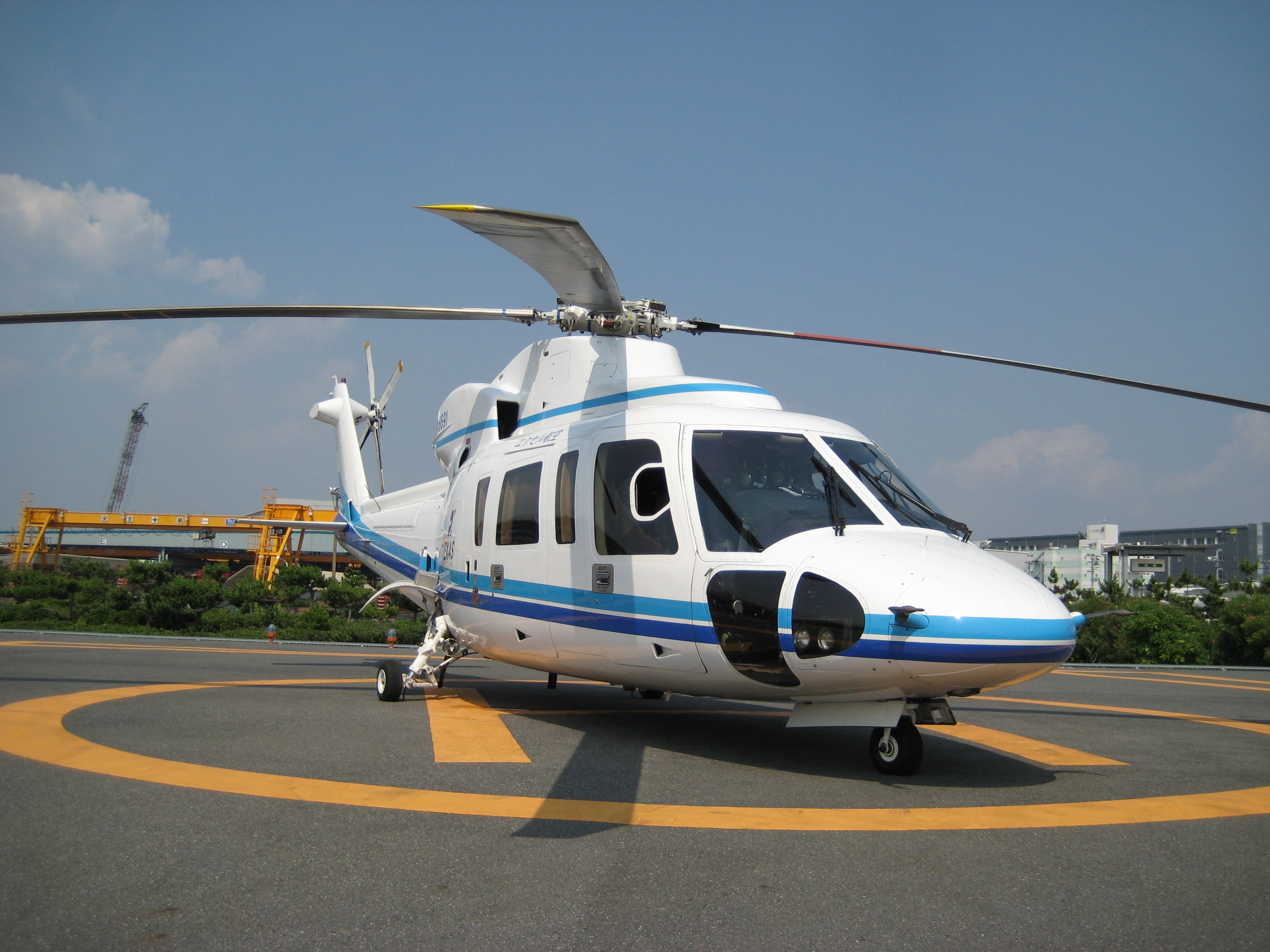 Helicopter; EXCEL AIR SERVICE INK. S-76C JA6691